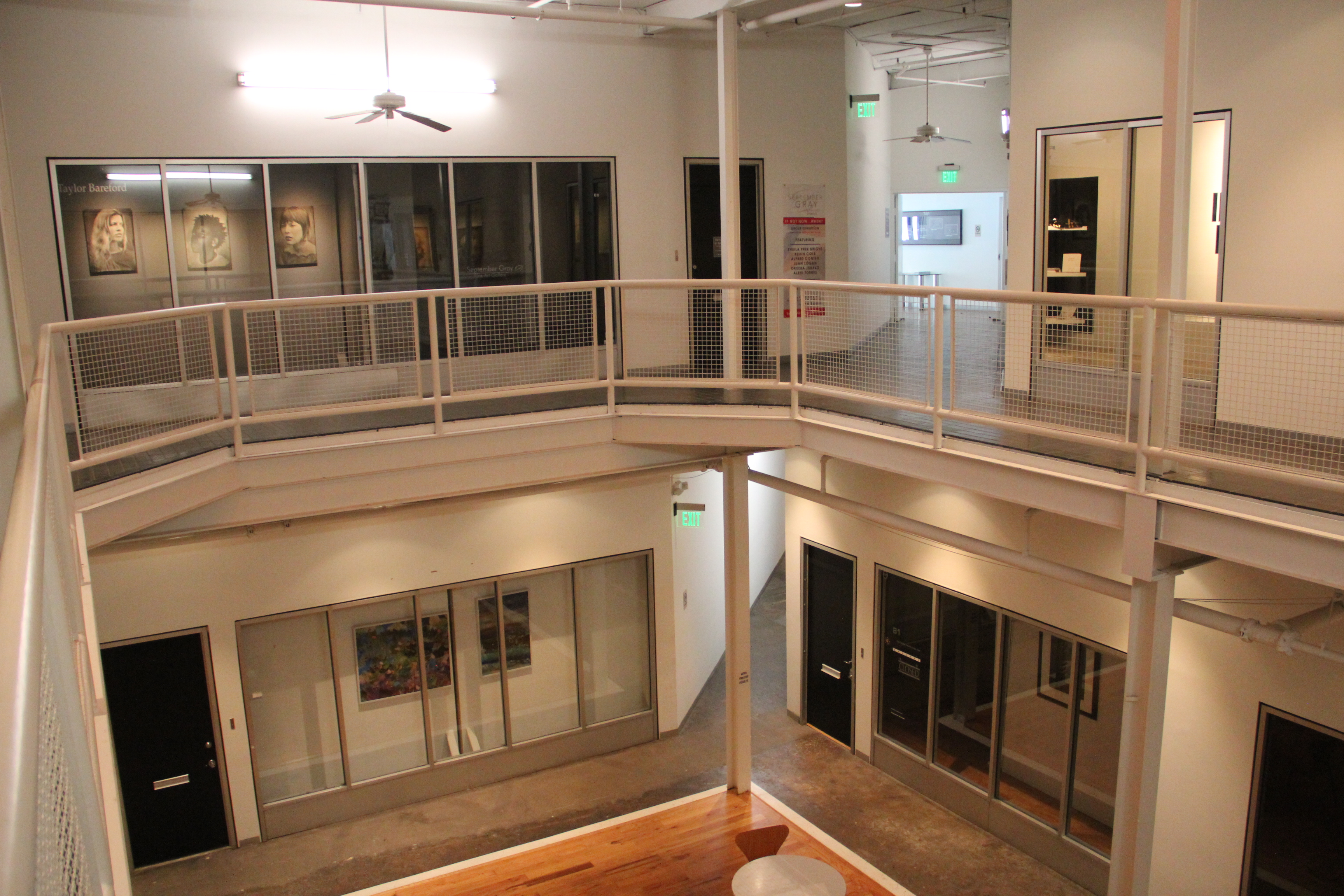 Museum of Contemporary Art of Georgia interior